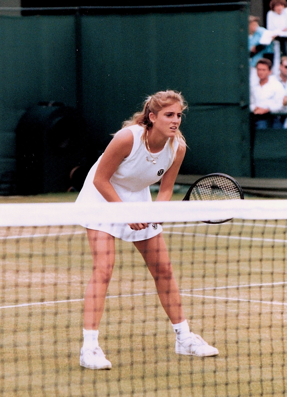 A photo of tennis player Carling Bassett-Seguso taken in 1987.